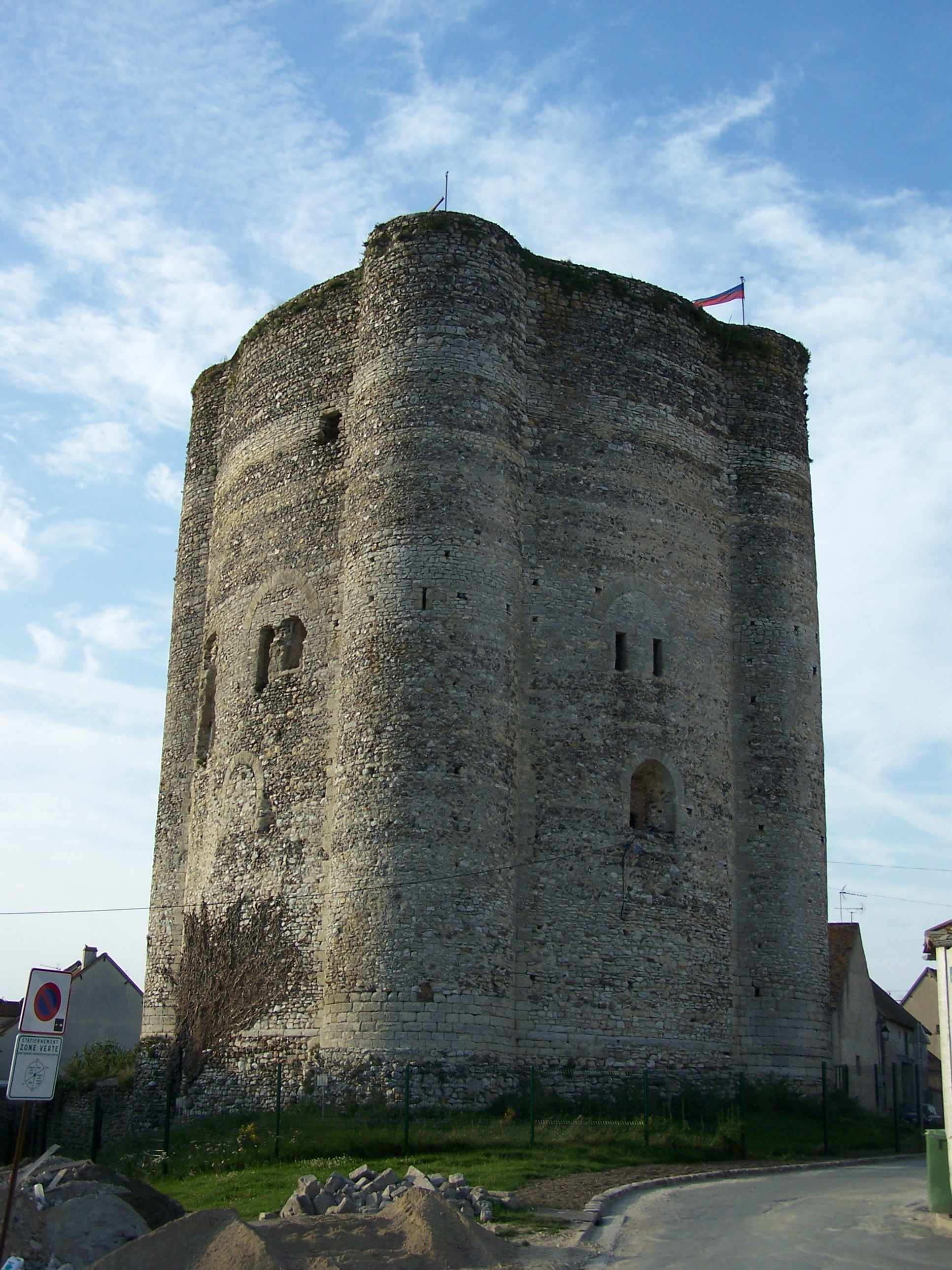 Keep tower of Houdan (Yvelines, France)